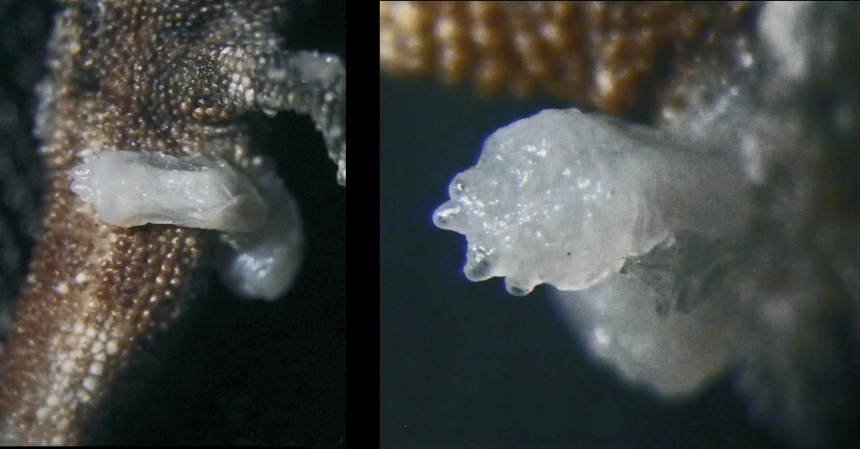 Hemipenis of Brookesia micra.